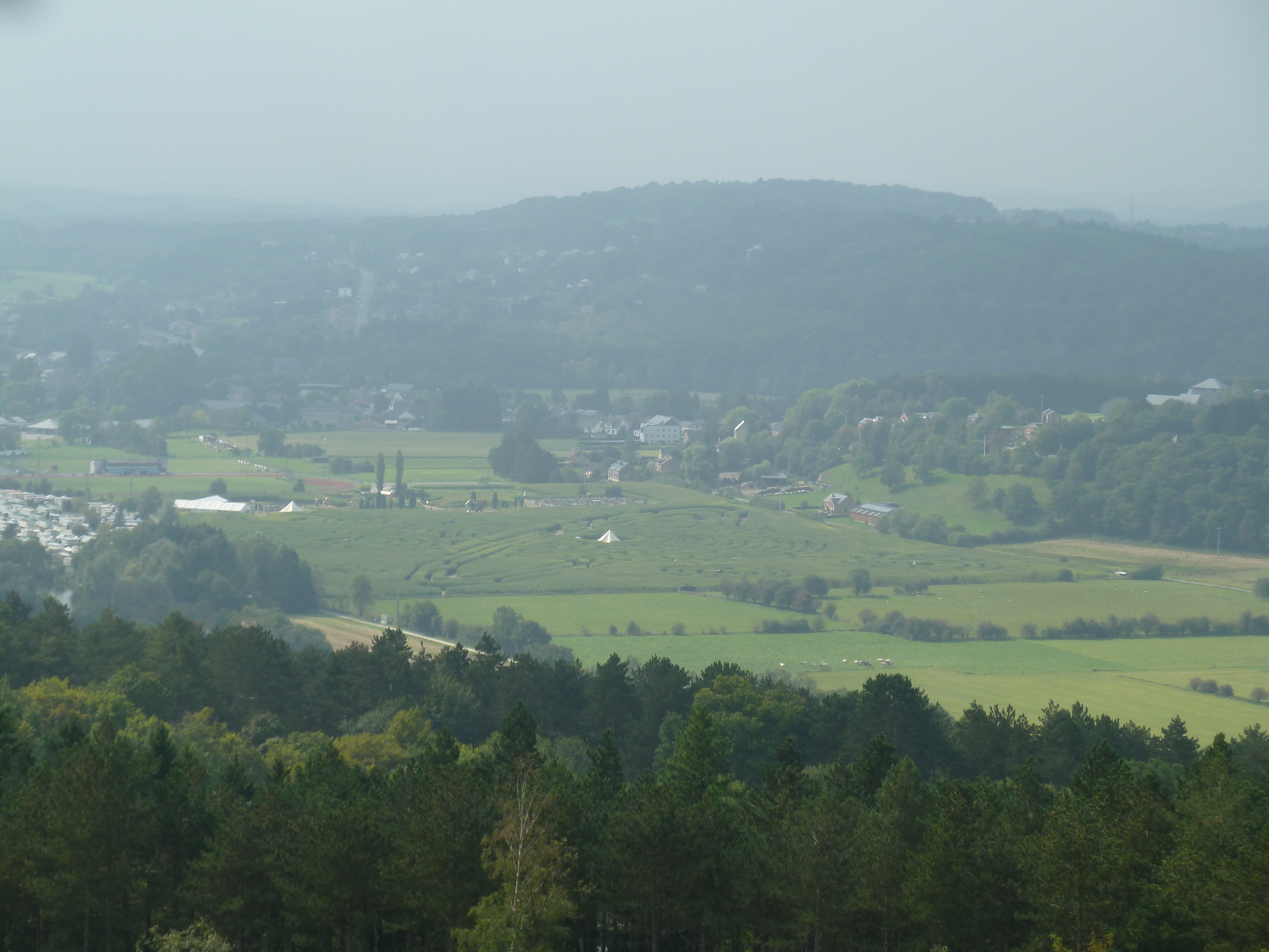 View from Mont des Pins, Bomal, Belgium